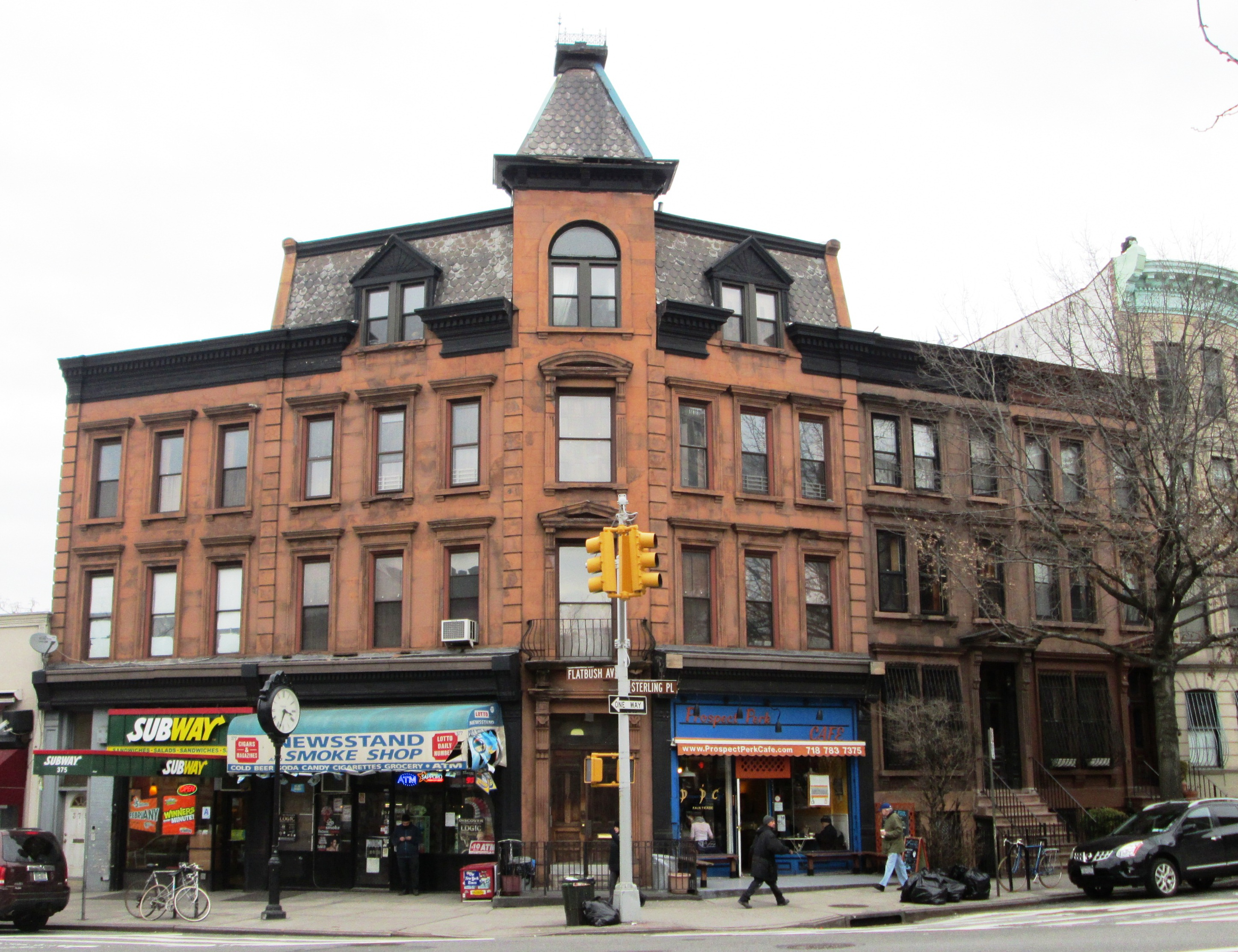 375-379 Flatbush Avenue and 185-187 Sterling Place, on the corner of Flatbush Avenue and Sterling Place in the Prospect Heights neighborhood of Brooklyn, New York City were built as an ensemble in 1885 and were designed by William Cook in the Neo-Grec style with Second Empire elements. The buildings have retail spaces at the street level, and apartments above. They are located in the Prospect Heights Historic District. (Source: "Prospect Heights Historic District Designation Report")